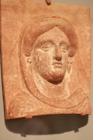 Relief Plaque with the Bust of a Female Figure, Greece, Myrina